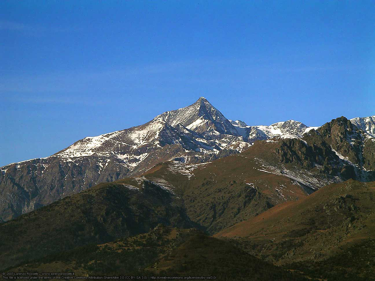 Mount Rocciamelone (3538 m - valley of Susa, Italy) seen from Rocca Sella (1508 m)